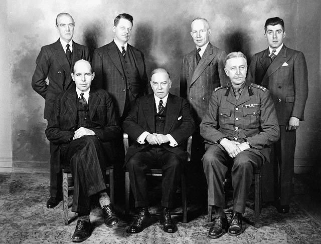 Rt. Hon. W.L. Mackenzie King with members of the party who accompanied him on a visit to Great Britain in August 1941. (Front: l.-r.): Norman Robertson, Rt. Hon. W.L. Mackenzie King, Georges Vanier. (Rear: l.-r.): John Nicol, J.W. Pickersgill, Walter Turnbull, J.E. Handy